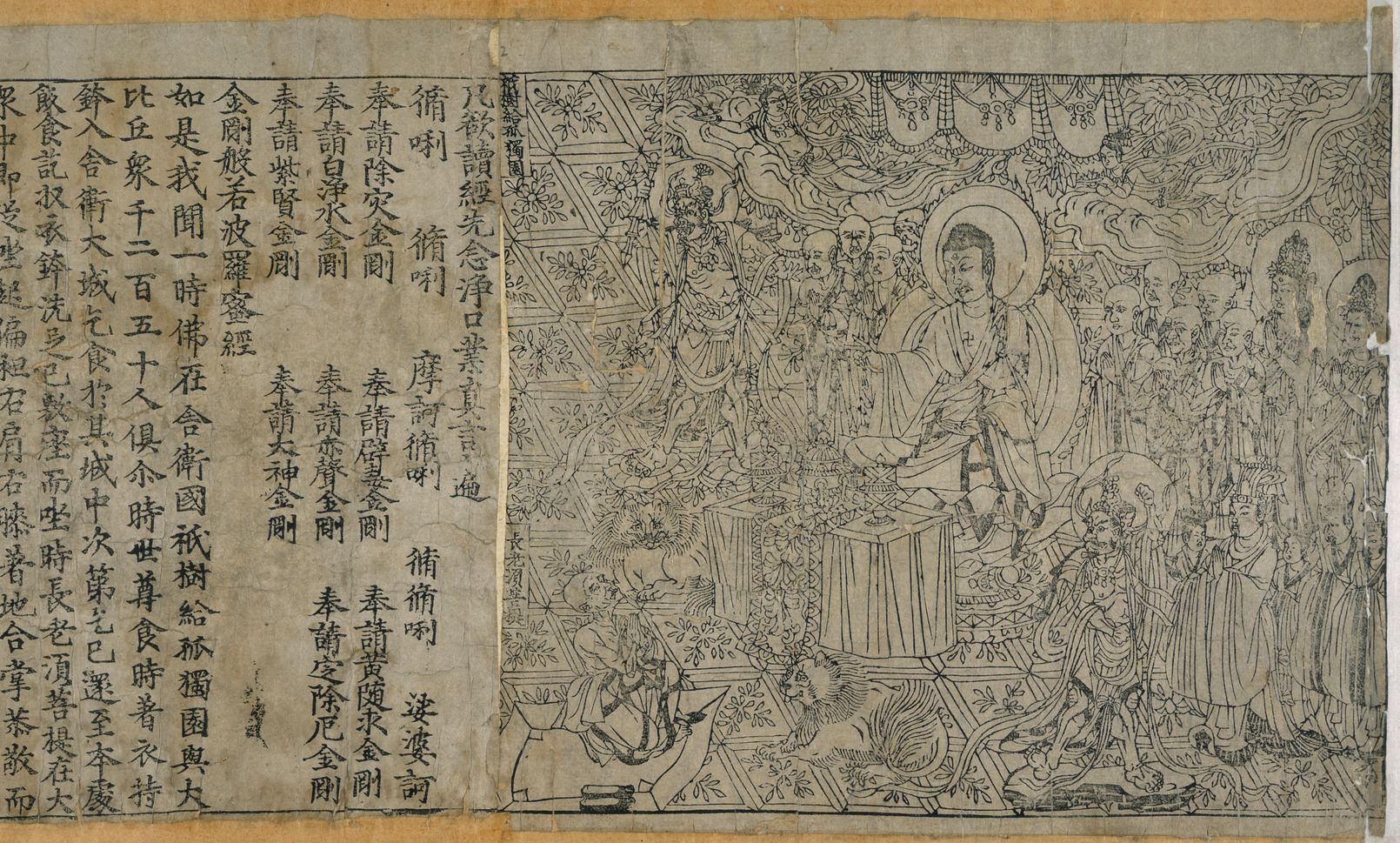 Diamond Sutra of 868 AD The image depicts the frontispiece to the world's earliest dated printed book, the Chinese translation of the Buddhist text the 'Diamond Sutra'. This consists of a scroll, over 16 feet long, made up of a long series of printed pages. Printed in China in 868 AD, it was found in the Dunhuang Caves in 1907, in the North Western province of Gansu.